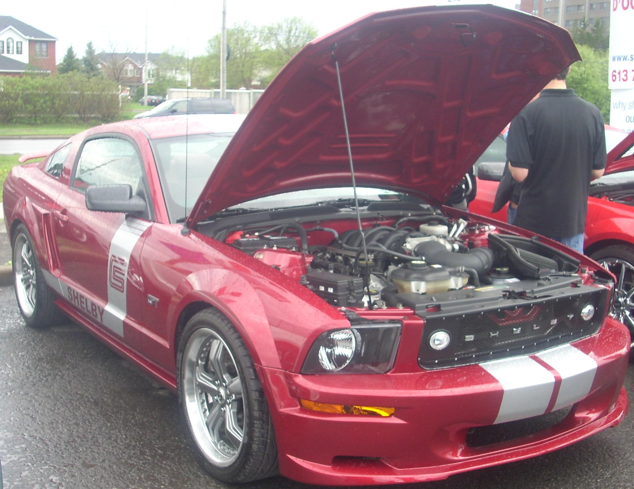 2007-2009 Ford Shelby Cobra GT Mustang photographed at the 2009 Sterling Ford Ottawa Auto Show.